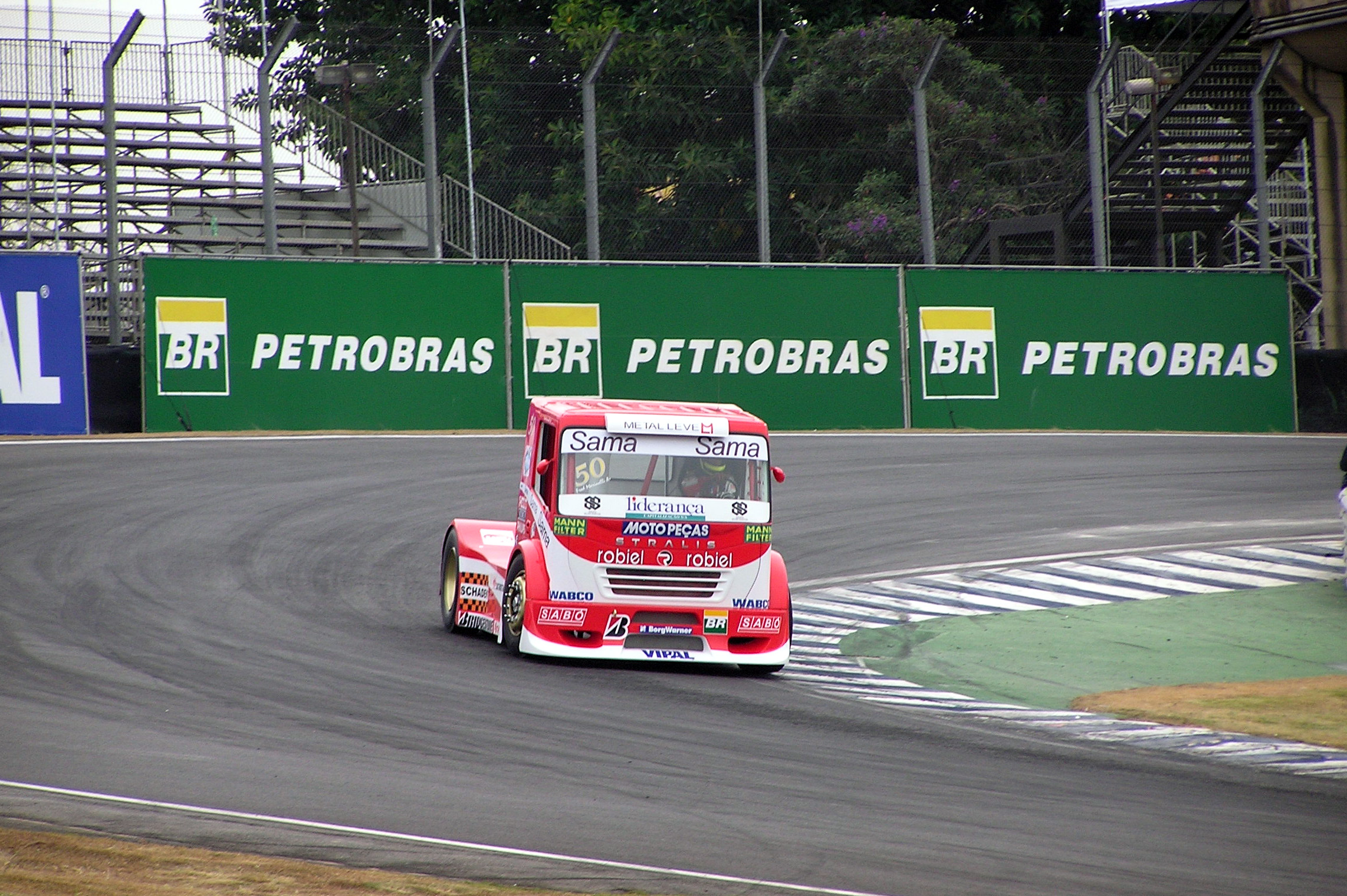 Fórmula Truck 2006 Rd.3 Interlagos: #50 Fred Marinelli